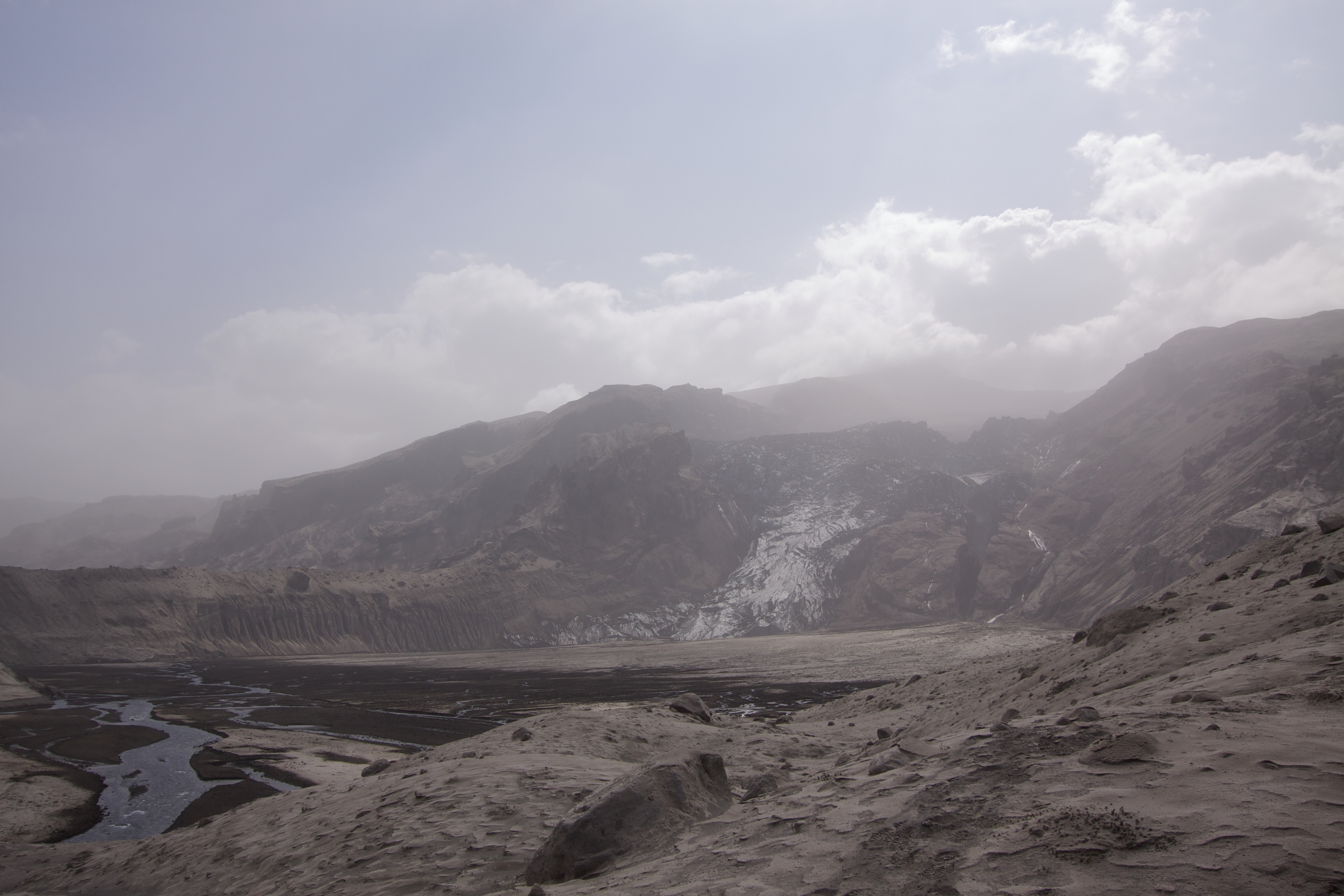 Gígjökull covered in ash after the 2010 eruption of Eyjafjallajökull